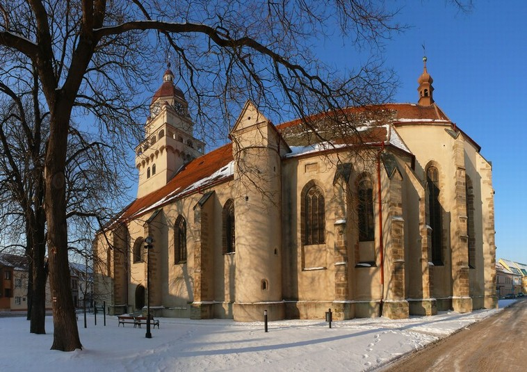 church of st michael in skalica